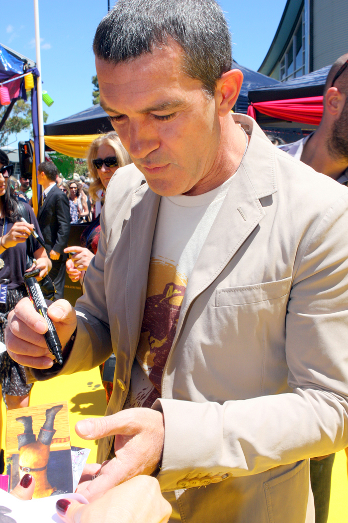 Antonio Banderas at the Puss in Boots 3D Premiere 2011.